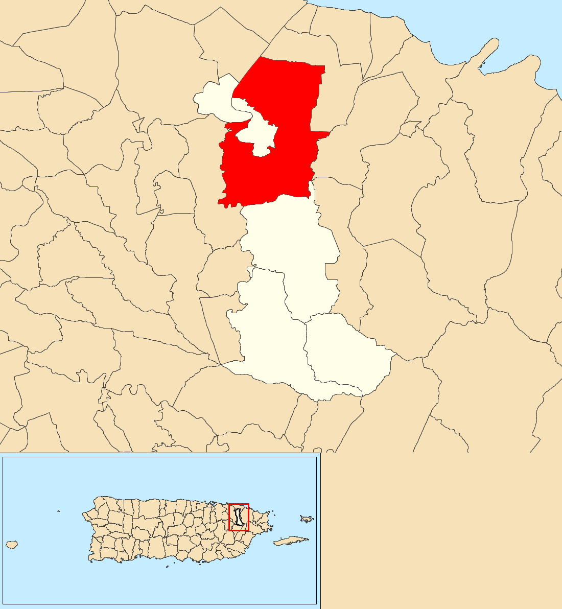 Canóvanas, Canóvanas, Puerto Rico locator map